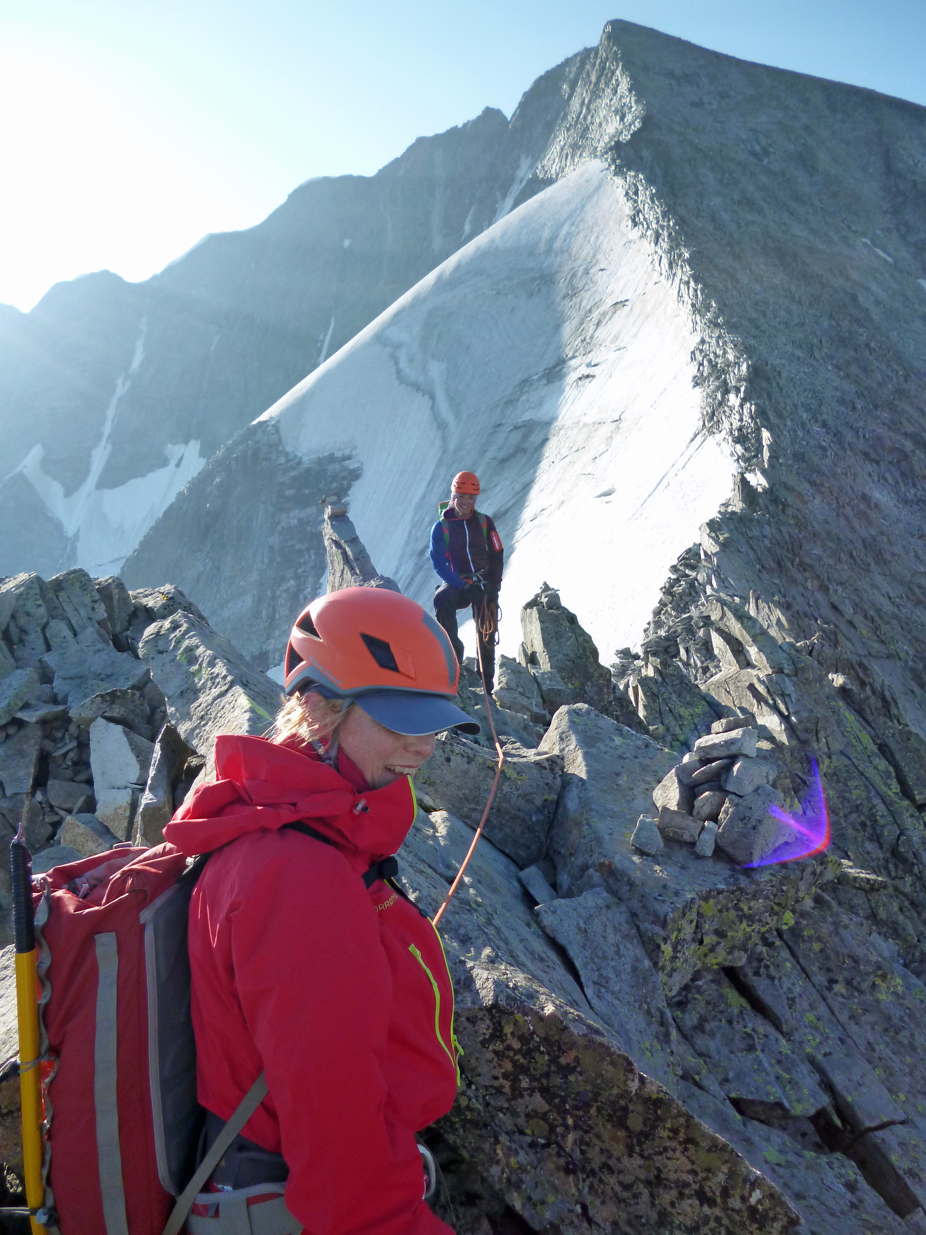 Nordwestgrat from Graues Nöckl